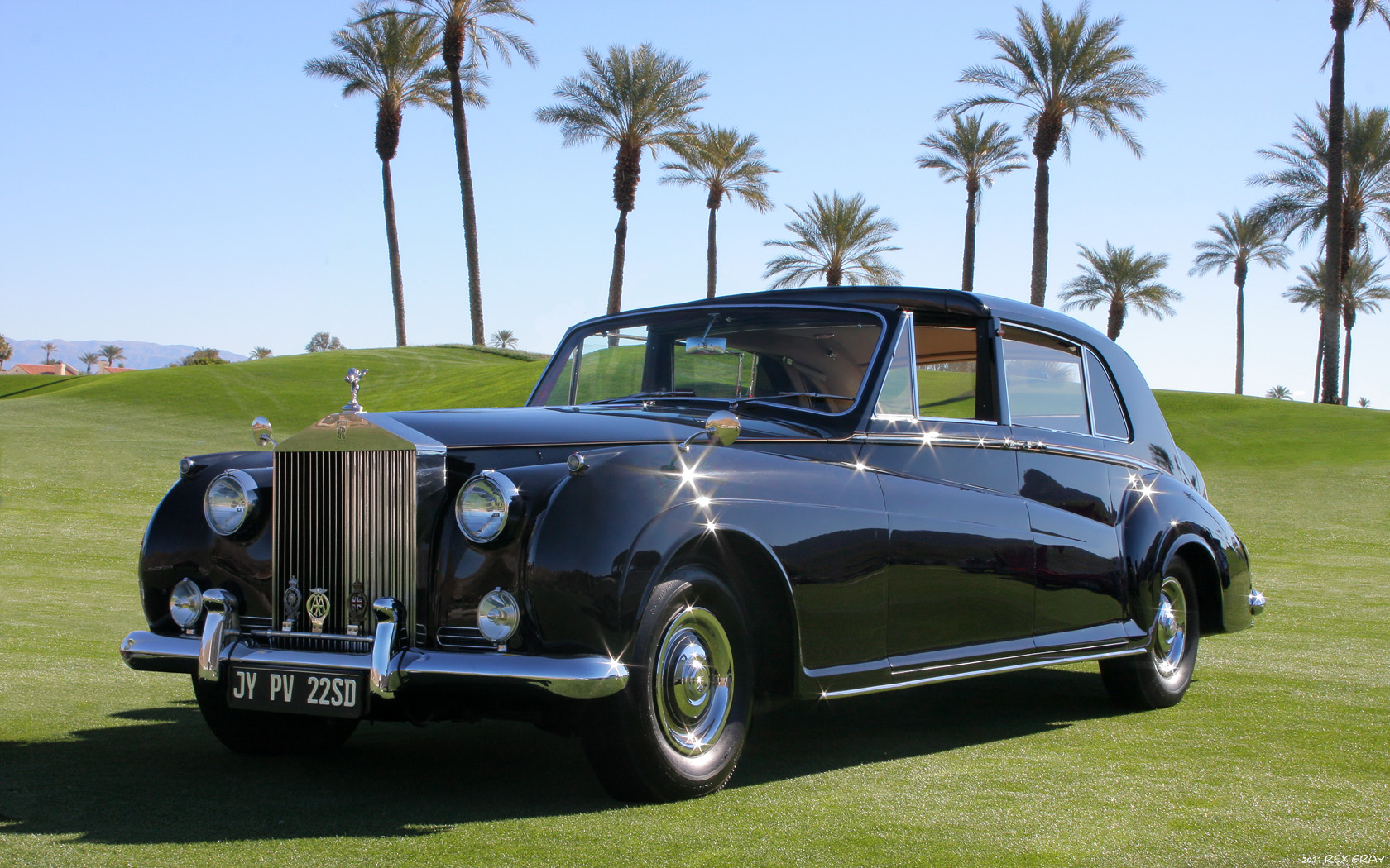 1961 Rolls-Royce Phantom V James Young Sedanca de Ville at the 2011 Desert Classic, La Quinta, CA